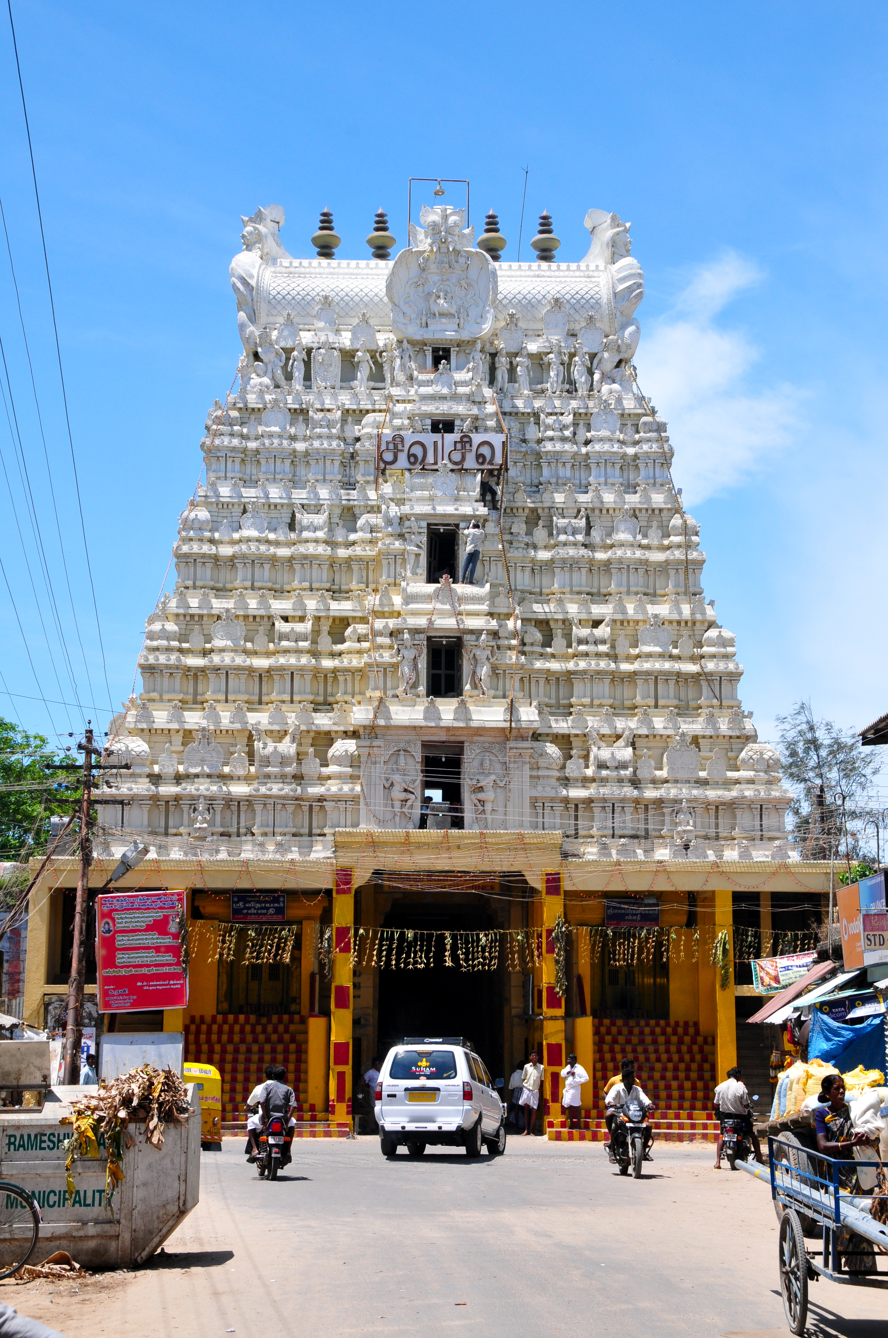 The main tower of Rameswaram Temple in Tamil Nadu, India.